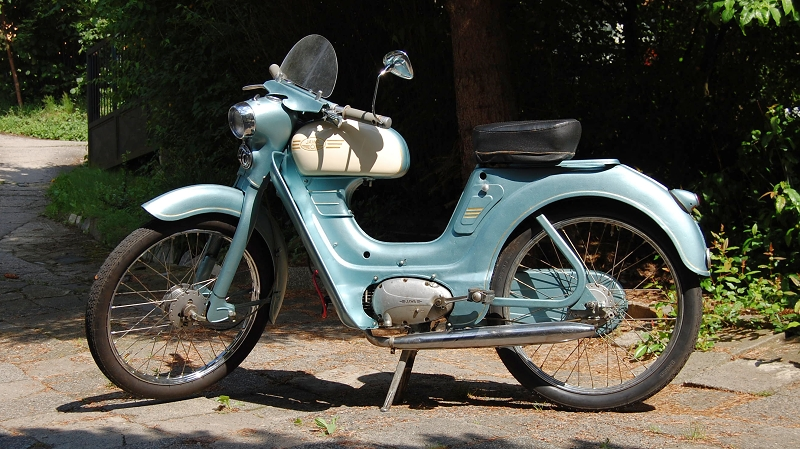 Jawa 50 type 551S Jawetta Sport